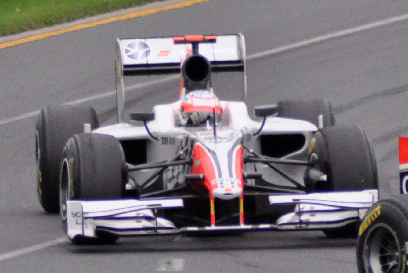 Australian F1 GP Weekend 2011 85 (cropped)